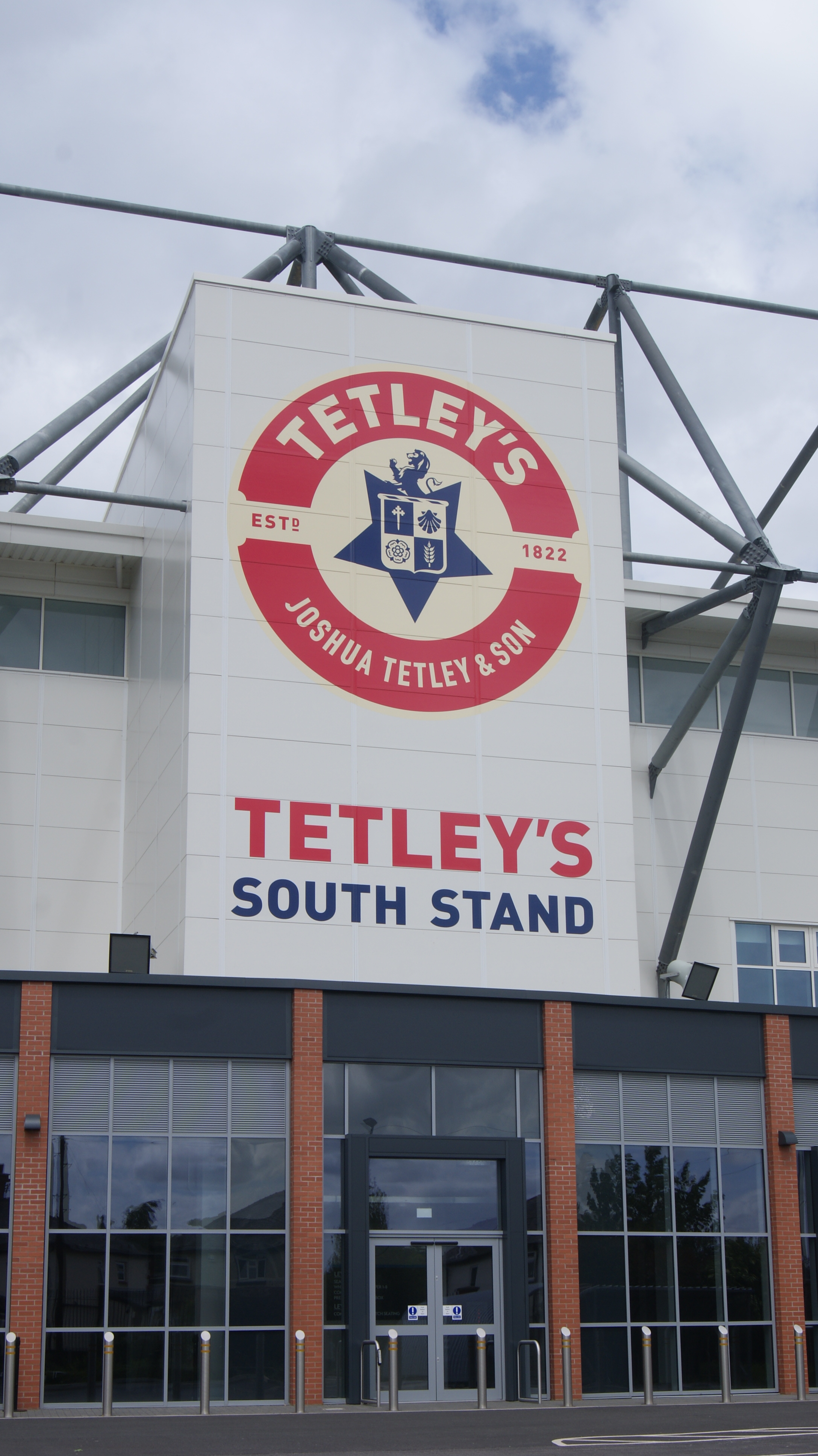 Exterior of the new South Stand, Headingley Stadium, Leeds, West Yorkshire. Taken on the afternoon of Saturday the 23rd of May 2020.